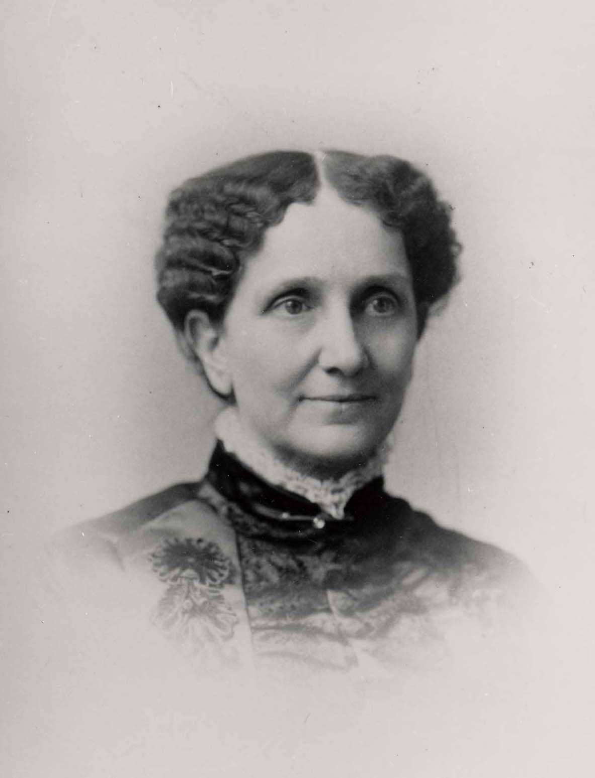 Public Domain Image of Mary Baker Eddy